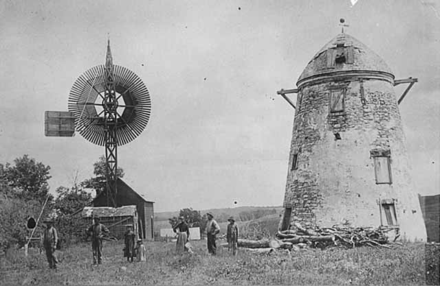 People, including William Seppman, standing in front of Seppman Mill.